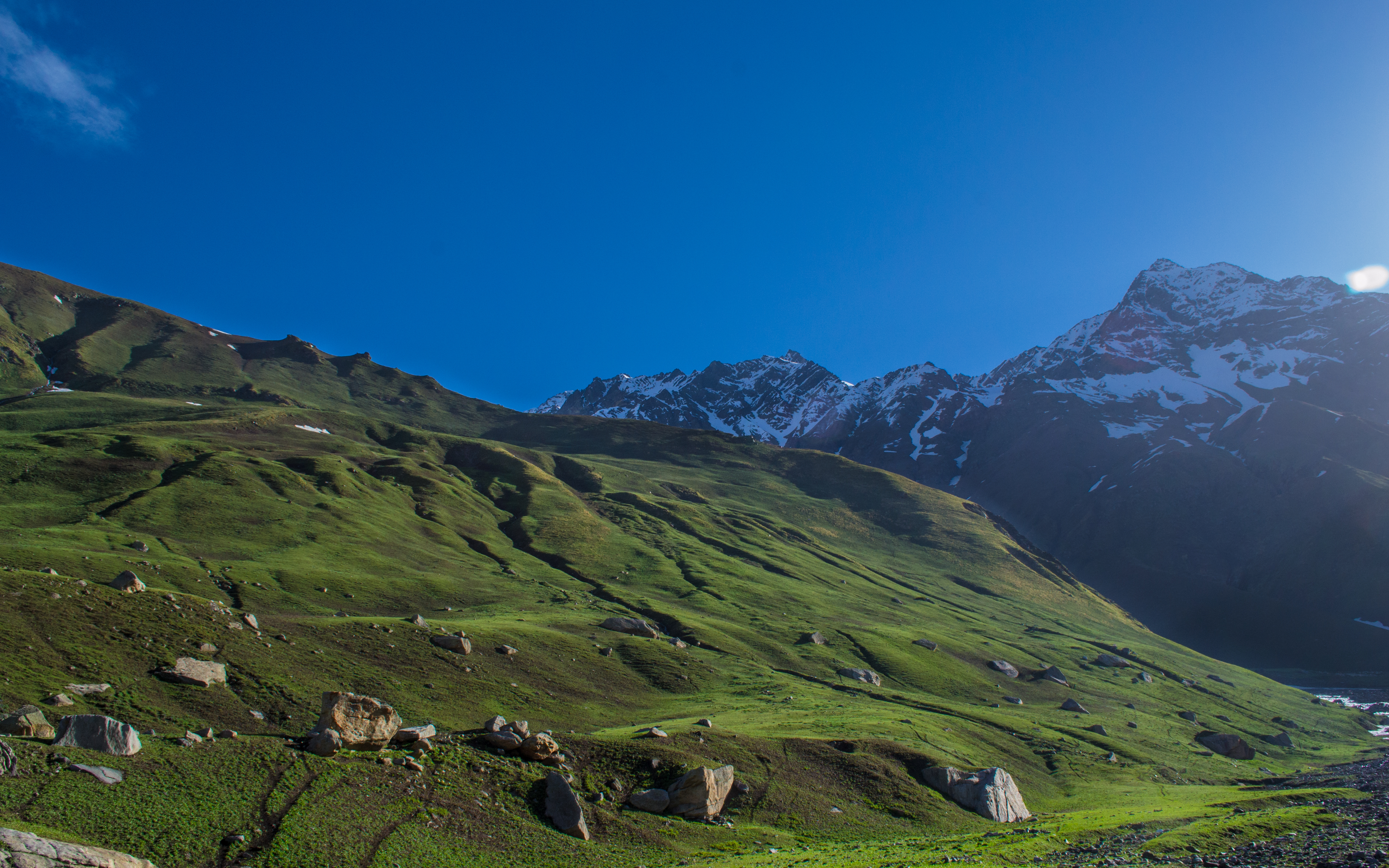 Captured this photograph in 2014 when i went for trekking in pin valley national park from bhaba pin pass.This are is forest reserved area.